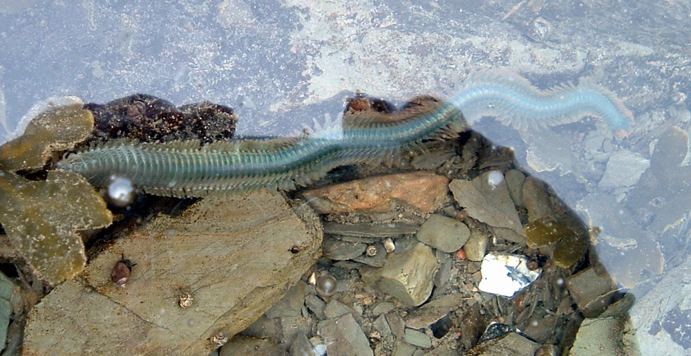 Alitta virens - St-Lawrence estuary, near Rimouski, Quebec. may 2010